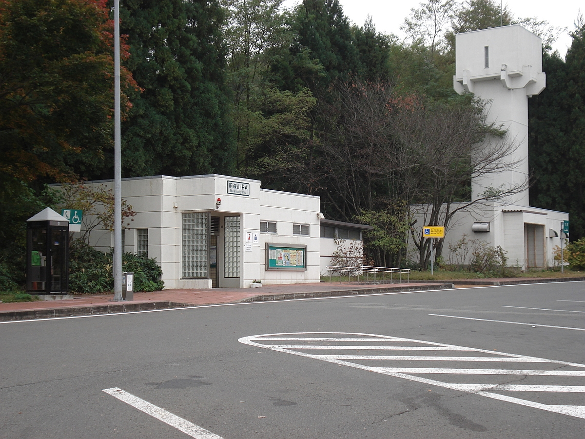 This rest area, Maemoriyama Parking Area（for Aomori）, is on Tohoku Expressway, in Hachimantai city, Iwate Prefecture, Japan.